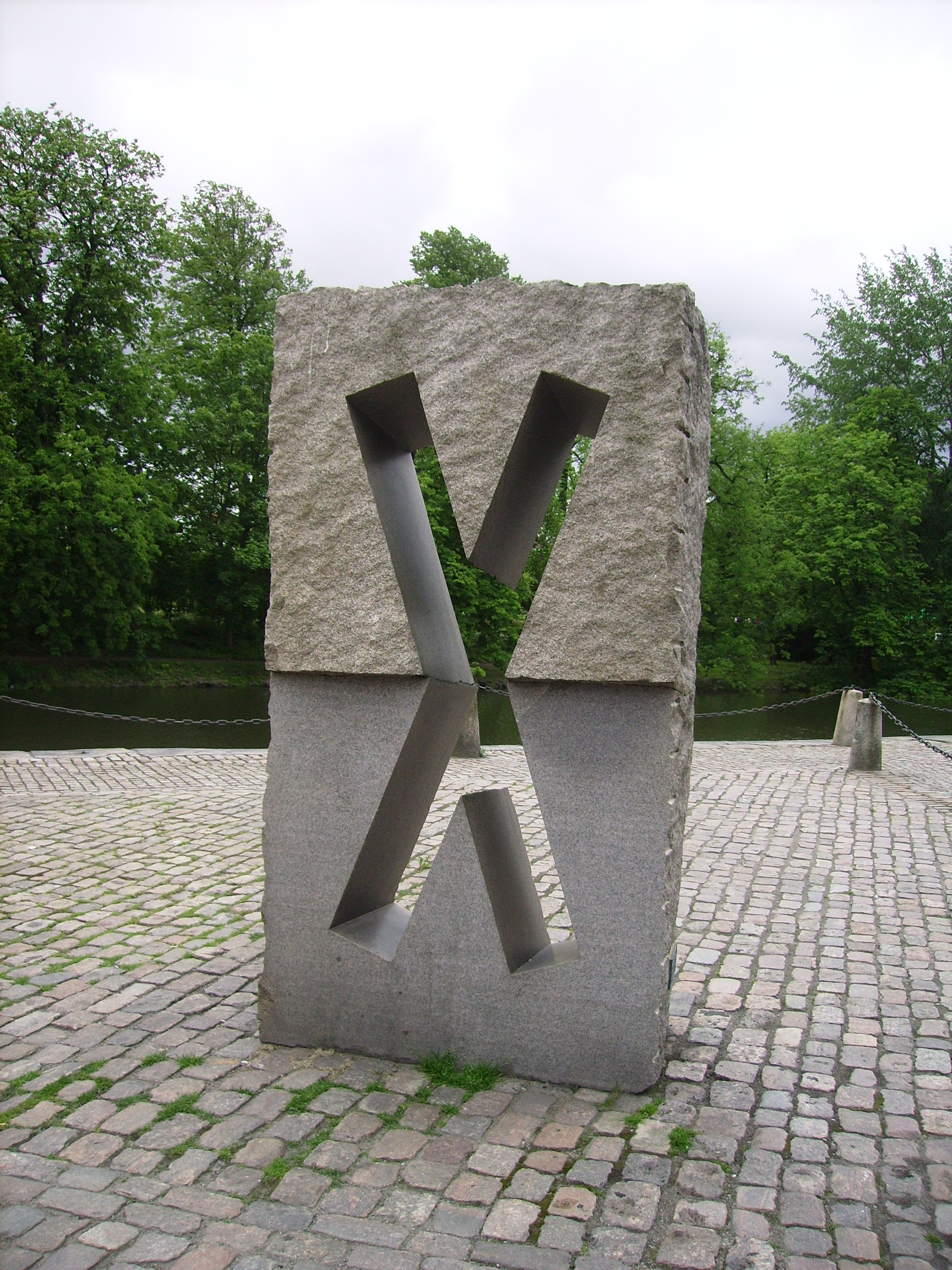 Picture a sculpture in Gothenburg, Mandala